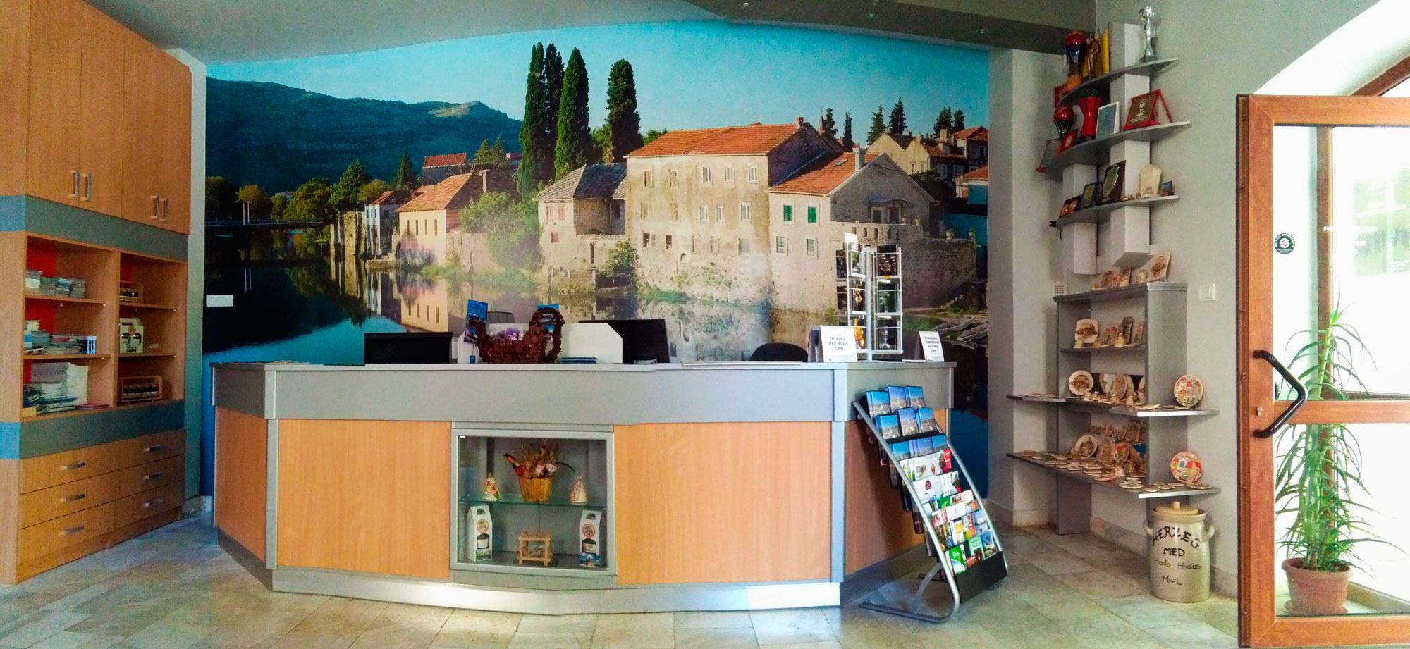 Turistički informativni centar se nalazi na adresi Jovana Dučića bb, 89101 Trebinje